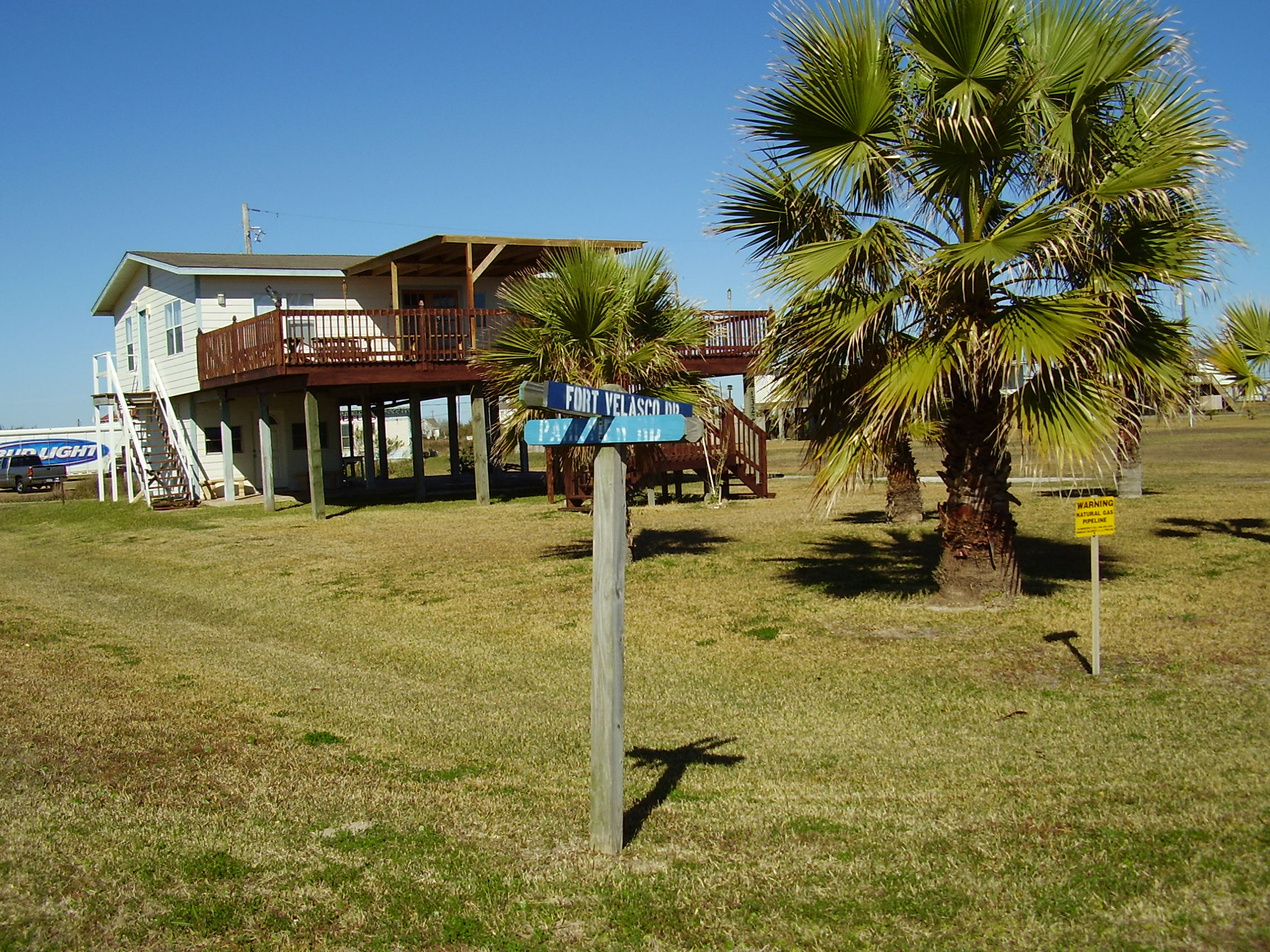 Beach house in Surfside, Texas. Taken by WhisperToME